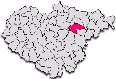 Map Salaj County Romania